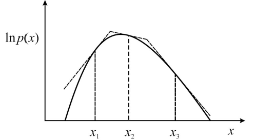 روش نمونه برداری بازپس زننده تطبیقی